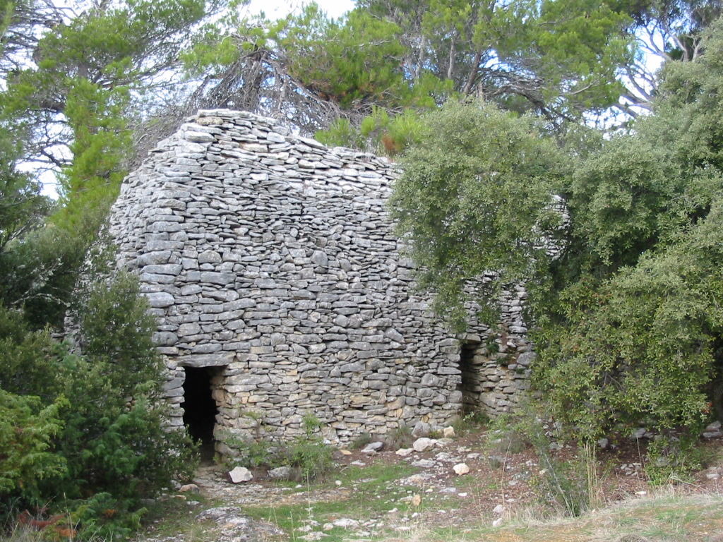 Dry stone hut (borie) at Murs, Vaucluse, France.